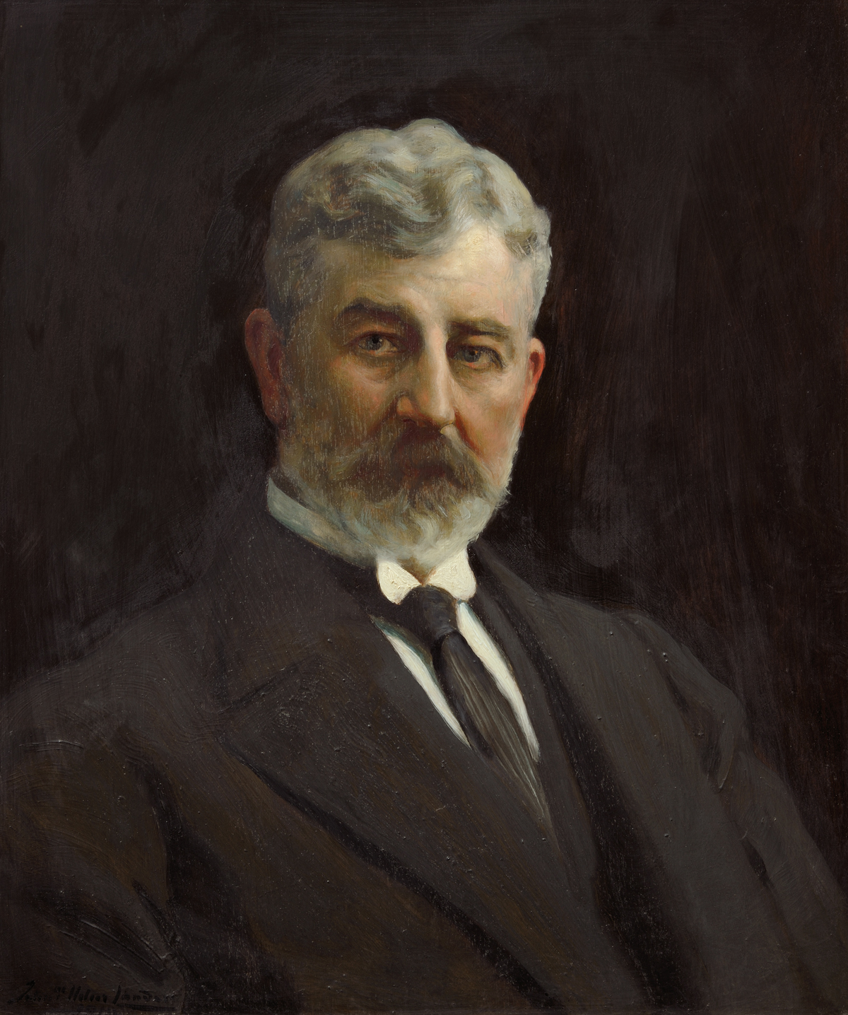 Portrait of William Philip Schreiner (1857-1919), a South African statesman who served as Prime minister of the Cape Colony during the Second Boer War.